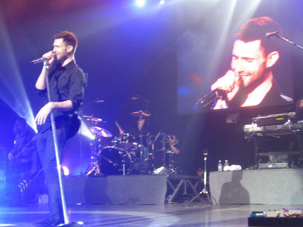 Maroon 5 performing "This Love" live in April 2007.